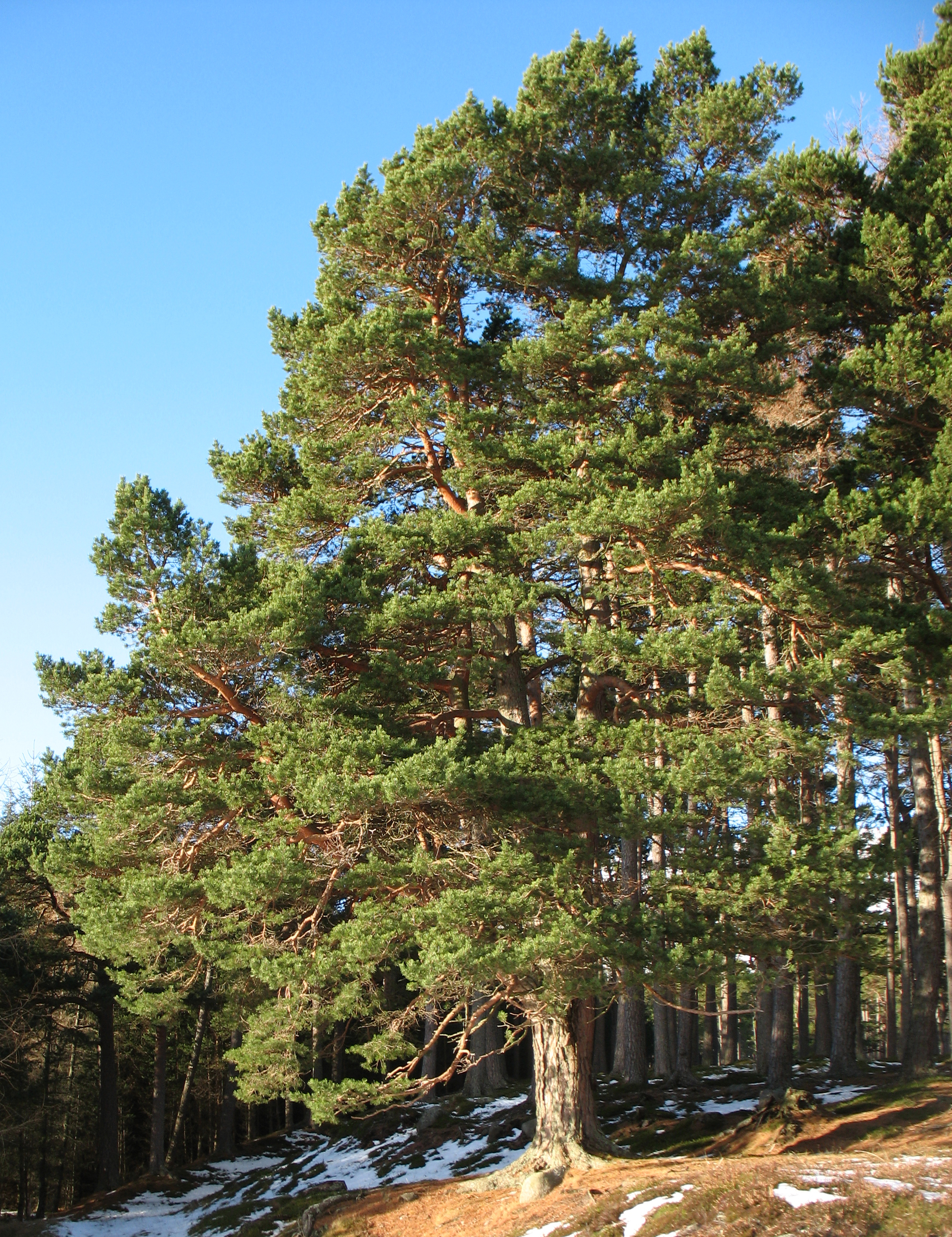 Pinus sylvestris, Spittal of Glenmuick, Cairngorm National Park, Scotland, 56°58'22"N 3°8'15"W, 400m altitude.